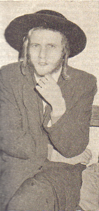 Pictures from an old magazine. Under Israeli law, pictures taken more than 50 years ago are in the public domain Young Neturei Karta hassid